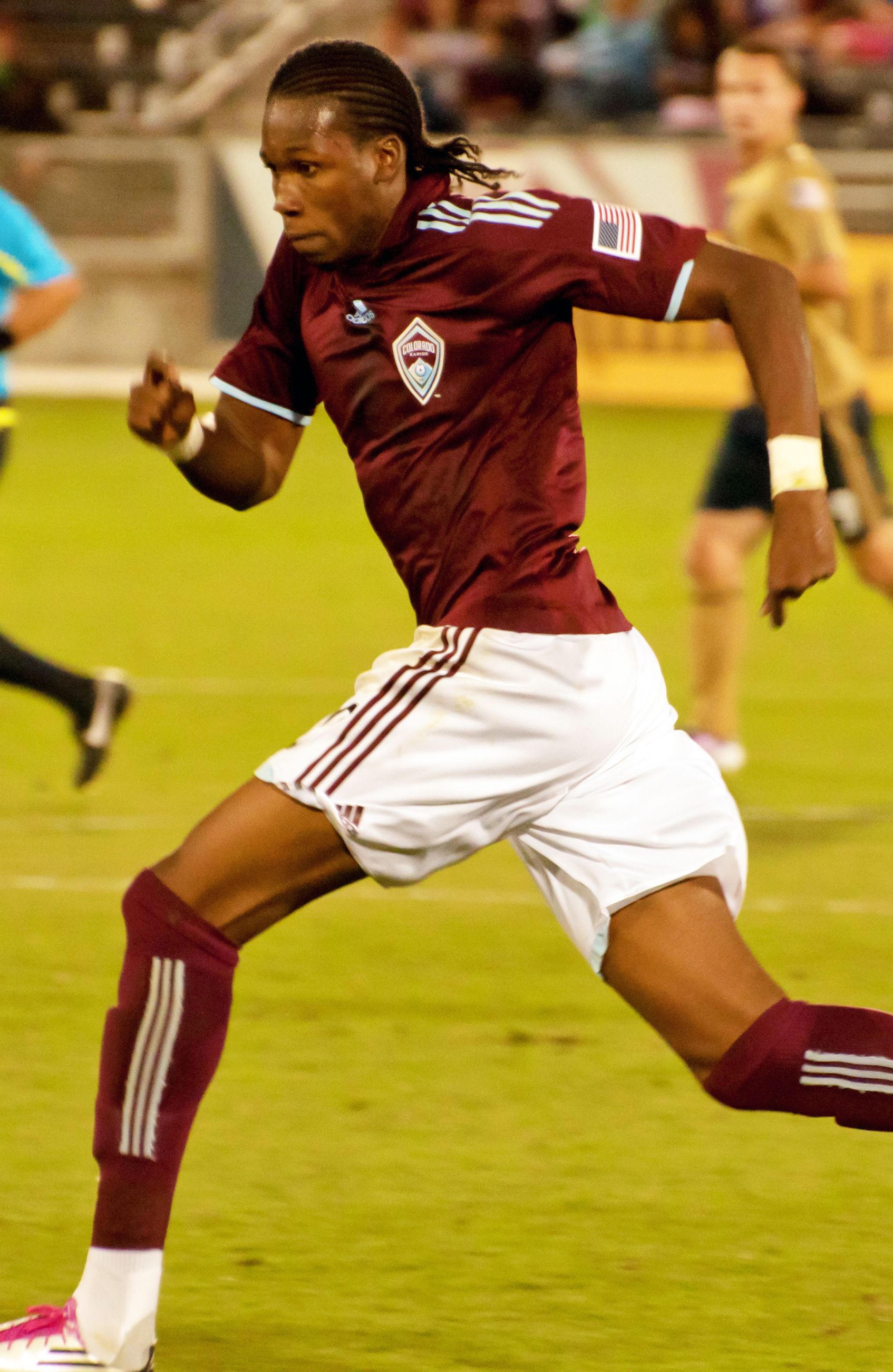 Macoumba Kandji_ligtened